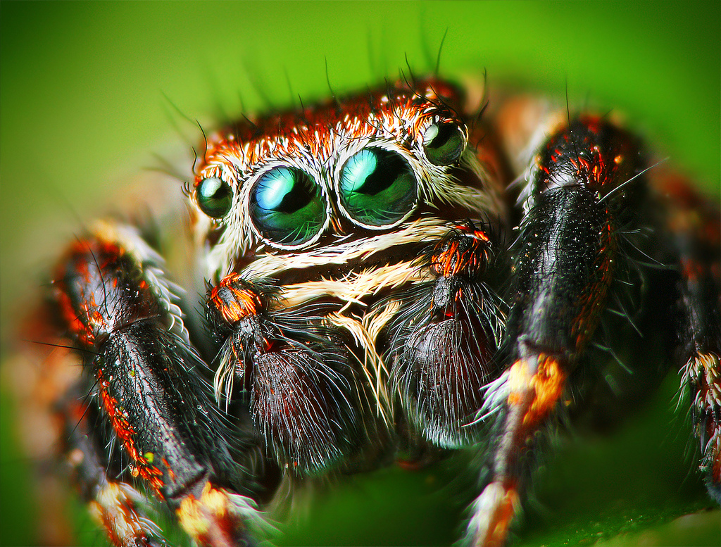 Hi all, I'm back from summer holiday... ;) I captured these images on August 20. I know that I already added a lot of pictures of this jumping spider, but this time I'm trying to show you much better quality photos... This jumping spider is not rare in Lithuania, it's one of the most common species here. I took these photos with CanonEOS40D photo camera + extension tubes + CanonEF100mmMacroUSM lens + Kenko close up filter I stacked this photo from 6 shots manualy in photoshop CS3 at F9. Please have a view of full size... Thanks :)